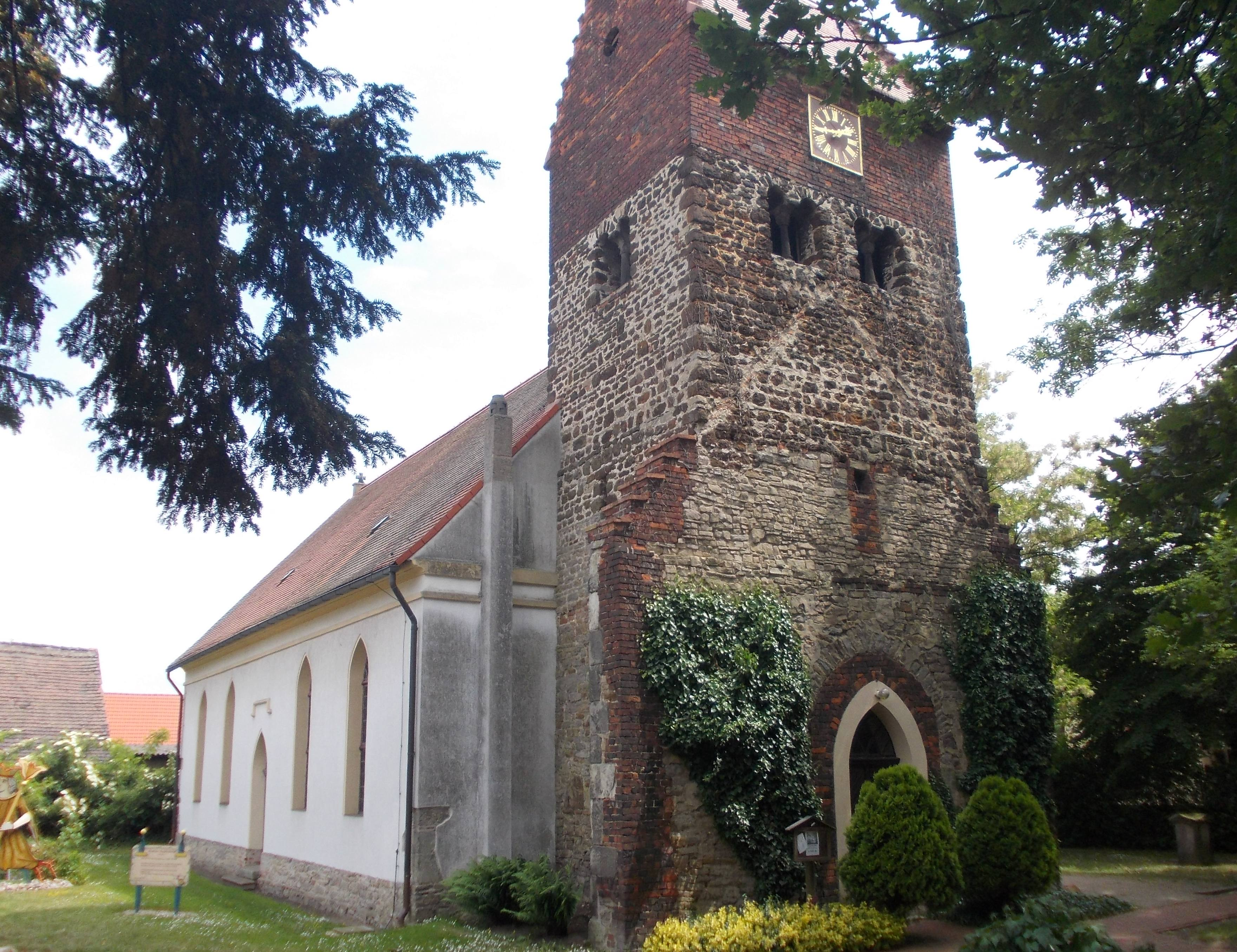 Reppichau church (Osternienburger Land, Anhalt-Bitterfeld district, Saxony-Anhalt)